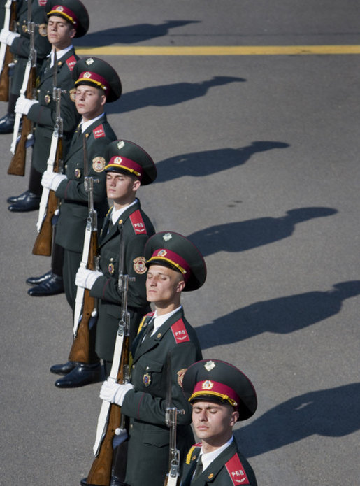 A Ukrainian honor guard stands at attention Friday, Sept. 5, 2008, upon Vice President Dick Cheney's departure from Boryspil International Airport in Kiev. The next stop on the Vice President's international trip is Italy, where he will address the Ambrosetti Forum and meet with Italian officials.